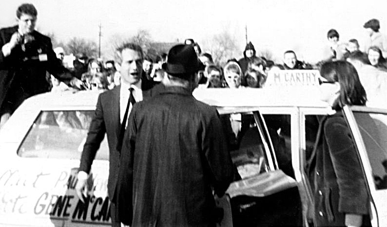 Paul Newman showed up at a political rally held in Menomonee Falls, Wisonsin in 1968 for Eugene McCarthy.